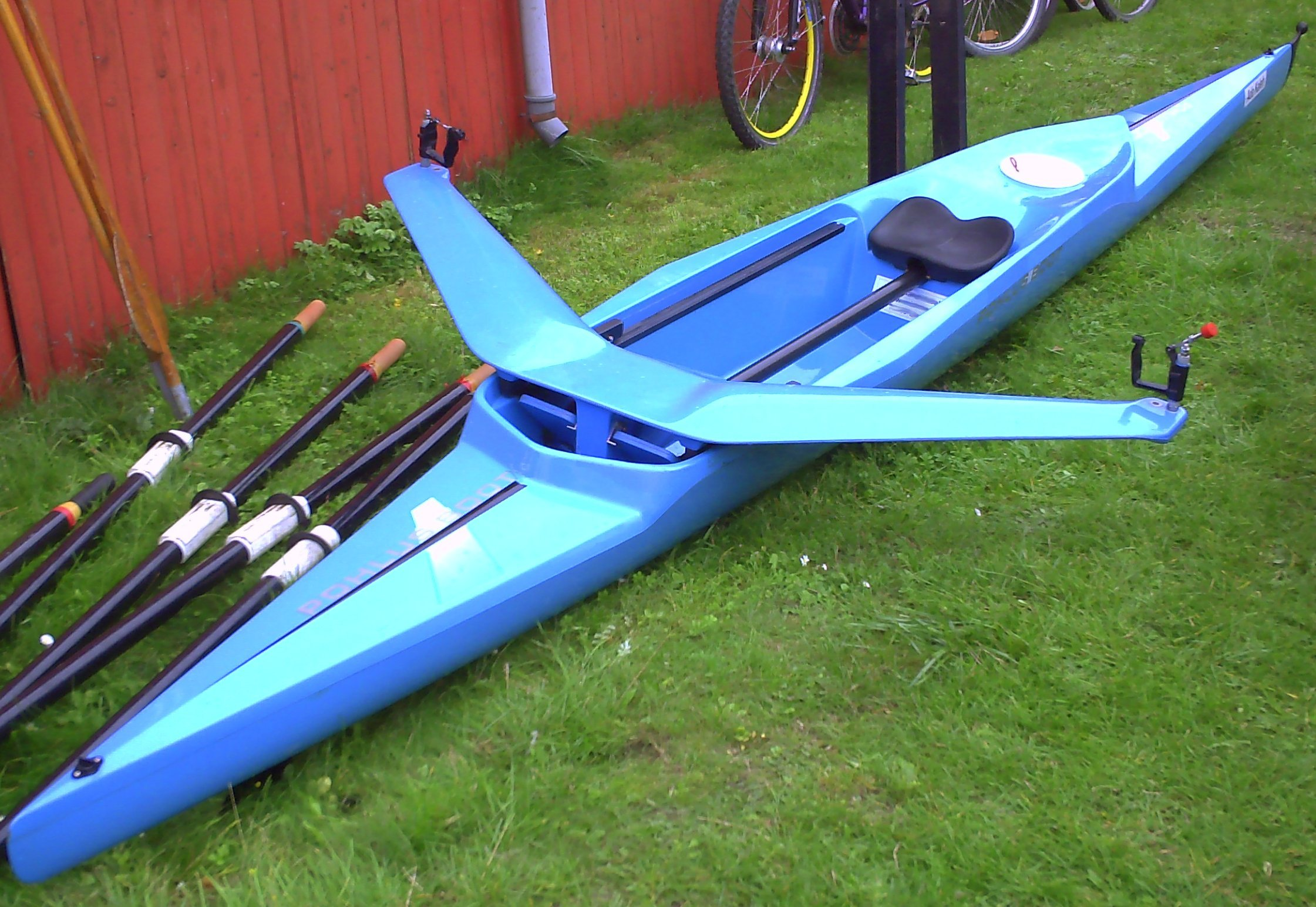 Pohlus Boat No 91/30